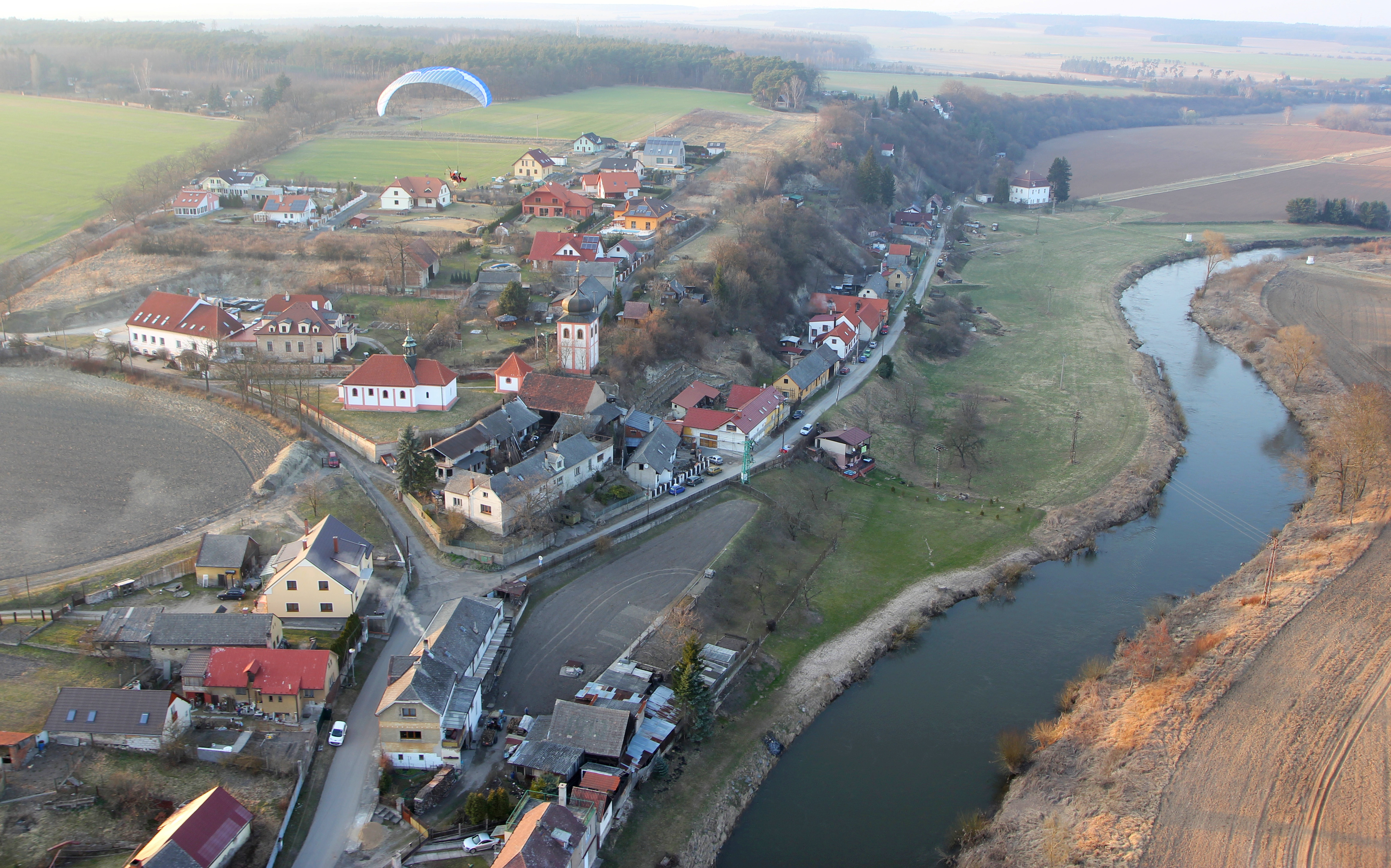 Aerial photo of Skorkov along Jizera river